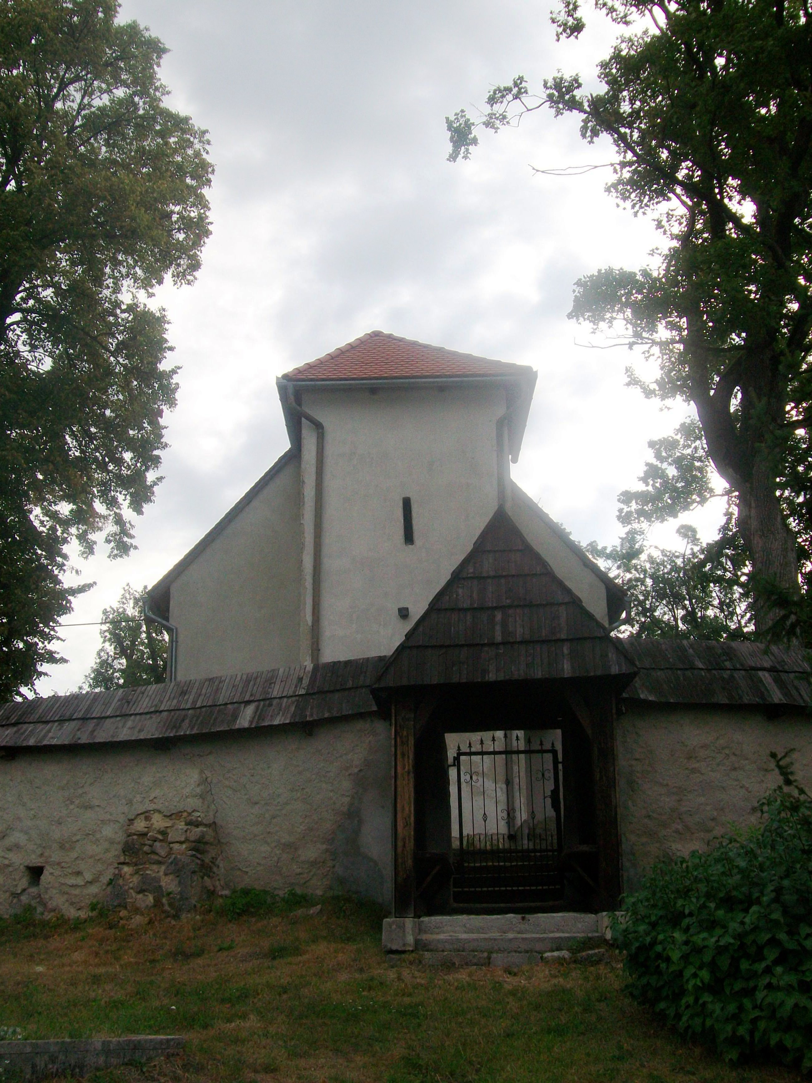 Lutheran Church was built at the turn of the 13th and 14 century as the Catholic Church of St. AnneSlovenčina: Evanjelický kostol bol postavený na prelome 13. a 14. storočia ako katolícky kostol sv. Anny Object location48° 28′ 02.17″ N, 19° 33′ 43.2″ E